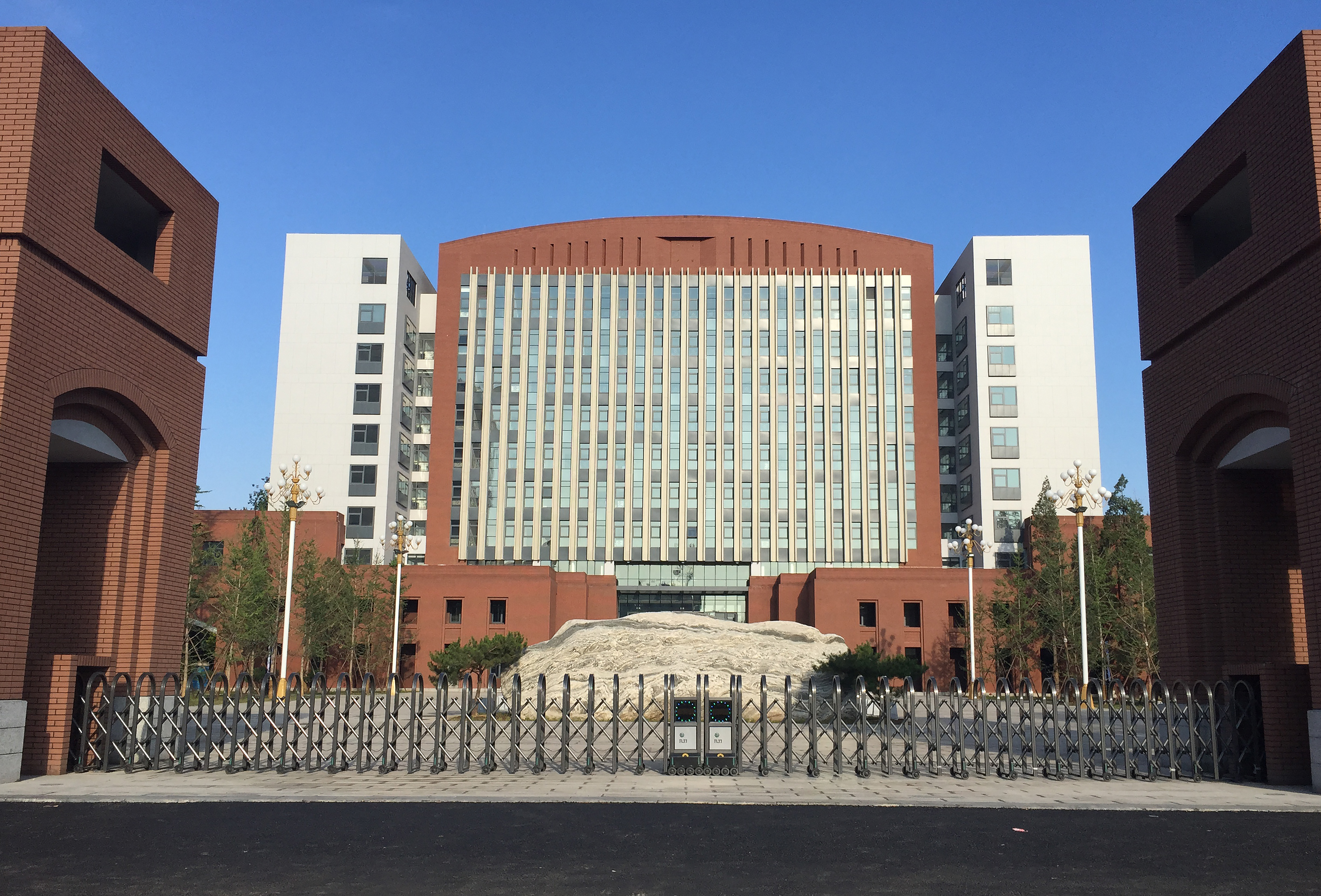 Well done, the new facade of CNU!